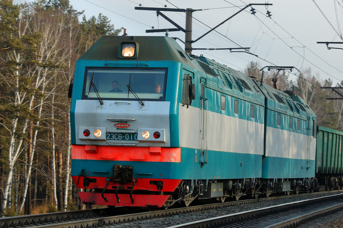 2ES6-010 locomotive with freight train, Novosibirsk area, Russia